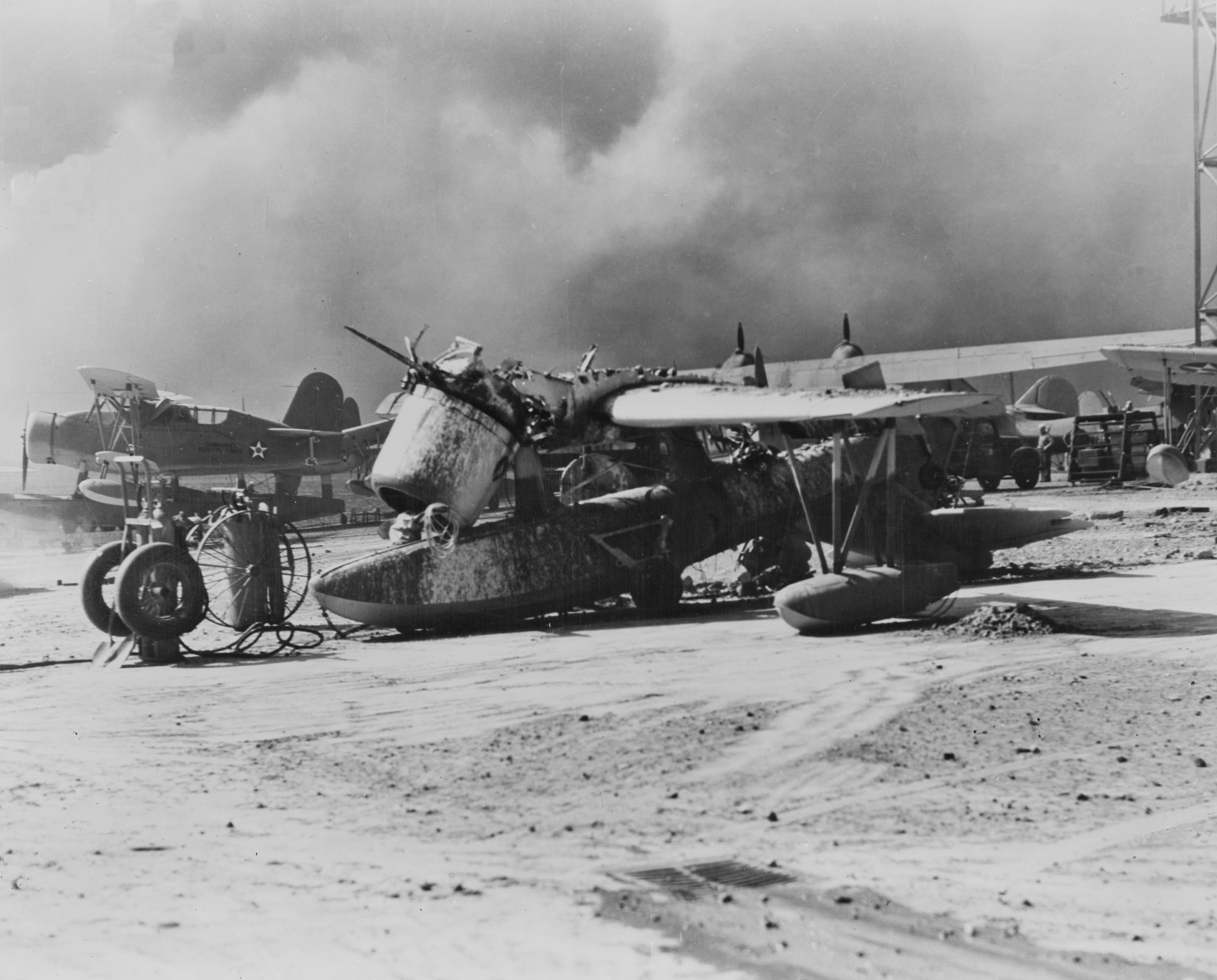 A wrecked U.S. Navy Vought OS2U Kingfisher at the Naval Air Station Ford Island, Pearl Harbor, Hawaii (USA), on 7 December 1941. Note the Curtiss SOC Seagull and the Consolidated PBY Catalina in the background. The SOC is marked "Commander Scouting Force".